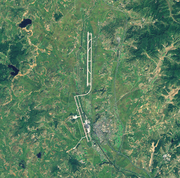 Cropped to better show the airport. NASA Landsat 7 view of the Pyongyang Sunan International Airport.